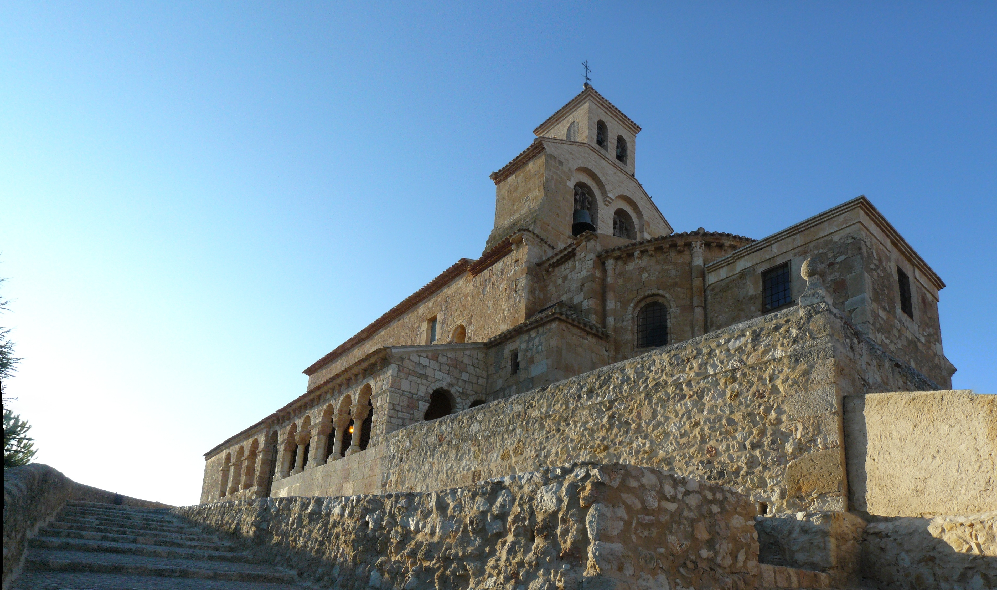 Church of Nuestra Señora del Rivero, San Esteban de Gormaz, Soria (Spain)